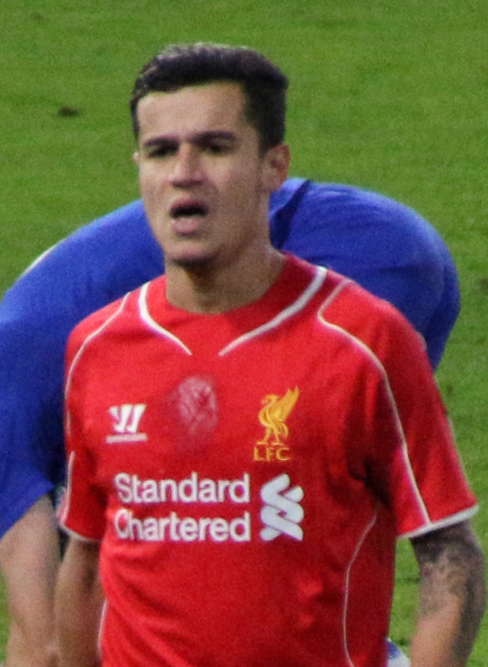 Chelsea 1 lLiverpool 0 (2-1 agg) Capital One Cup semi final 2nd leg On our way to Wembley!